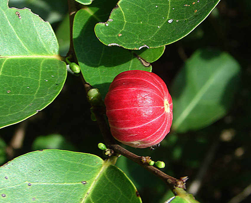 Found on coasts from India to Indonesia. Photo from near Kota Kinabalu, Borneo. Known as Jambu Kerah and said to be edible with caution.